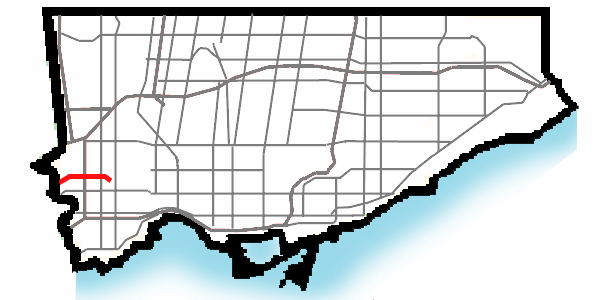 Map of Burnhamthorpe Road in Toronto